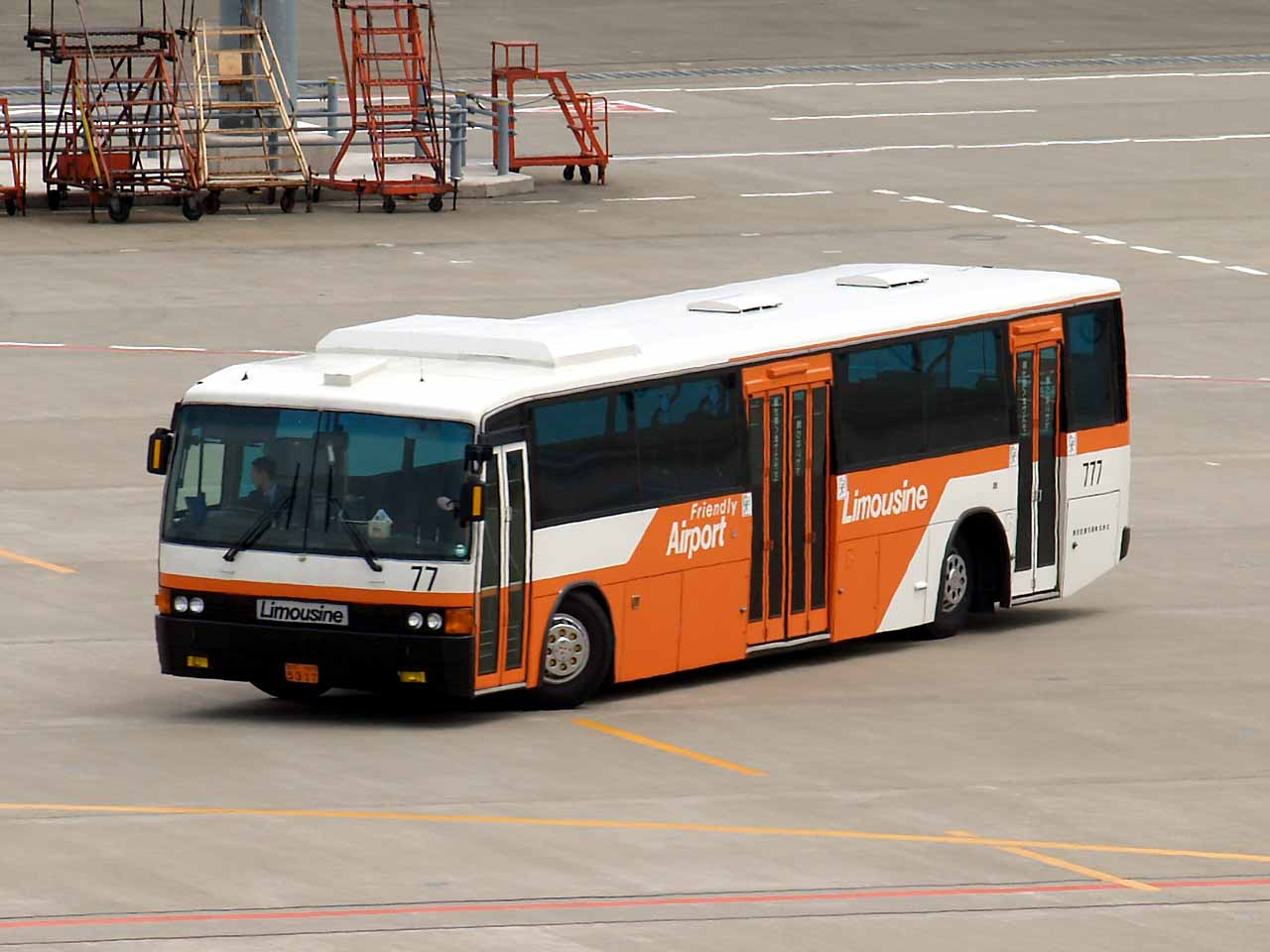 exhample of wide-width airport rampbus. Model: Mitsubishi Fuso Aero Star MP218 (Front face: Aero Bus MS7 series type) Place: Tokyo International Airport: Ota Ward, Tokyo Japan